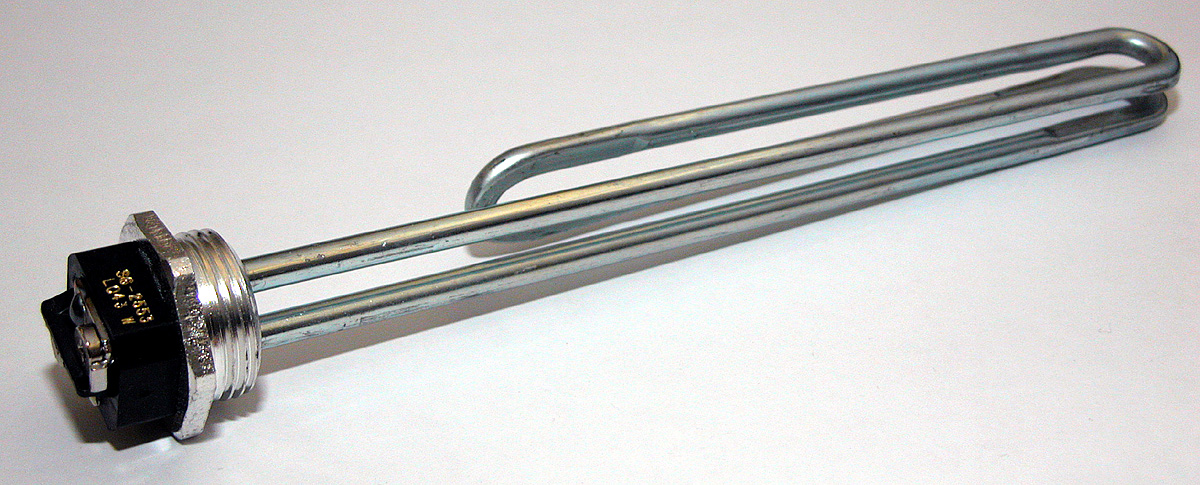 Resistance heating element